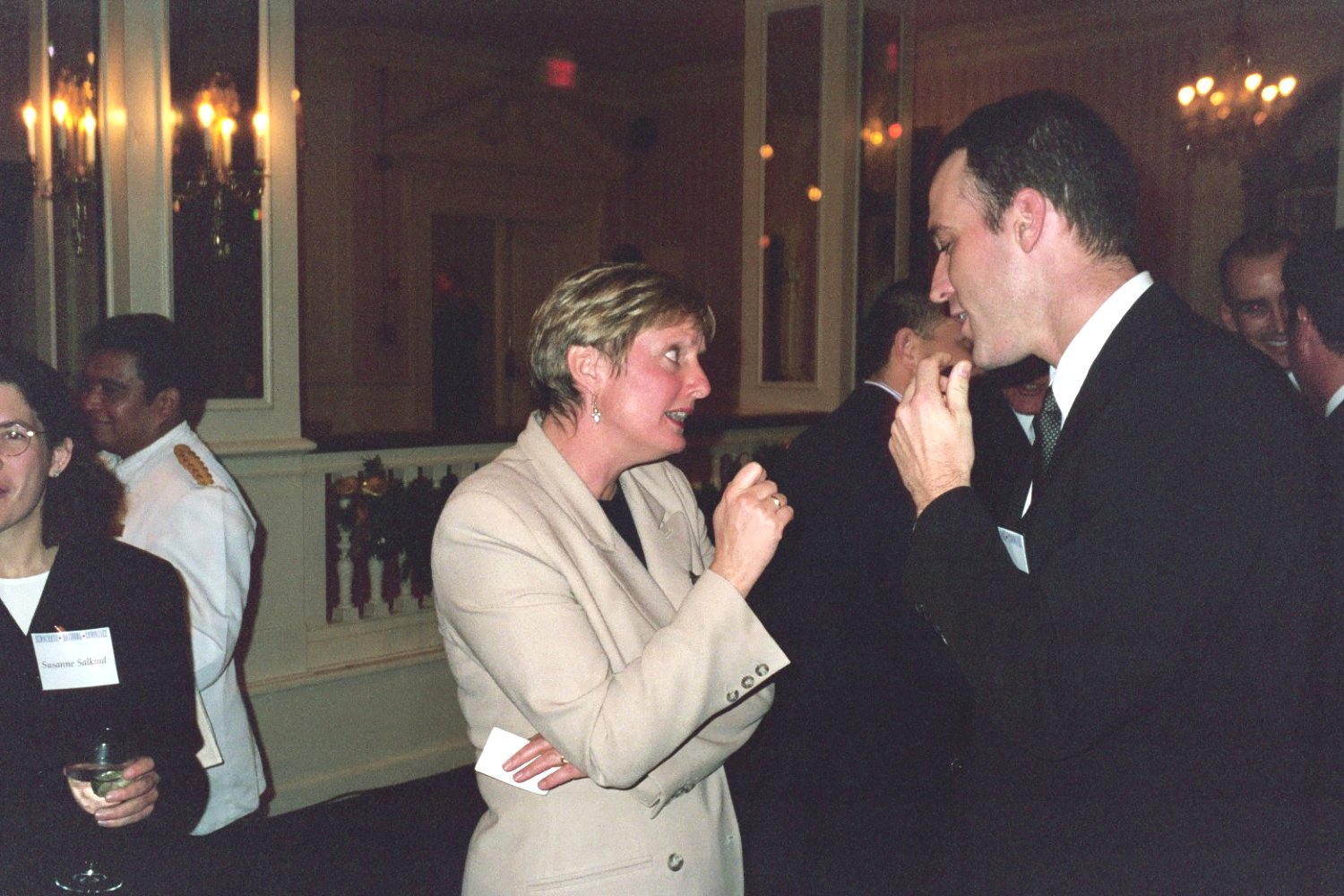 Elizabeth Birch from HRC, Washington, D.C., December 1, 1998.This photograph scanned from the original negative.